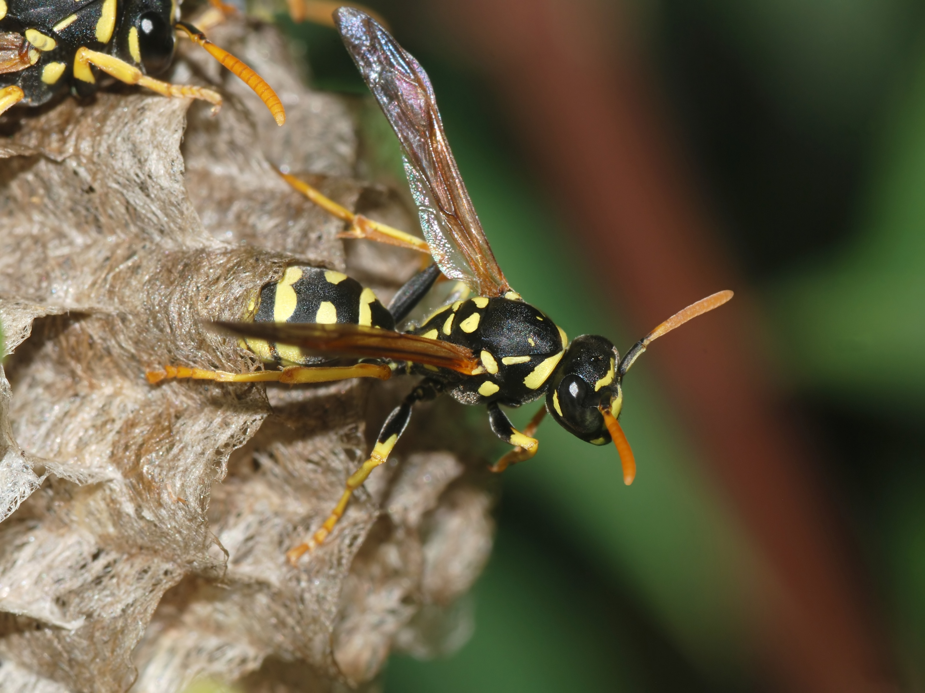 A young female paper wasp (Polistes sp).